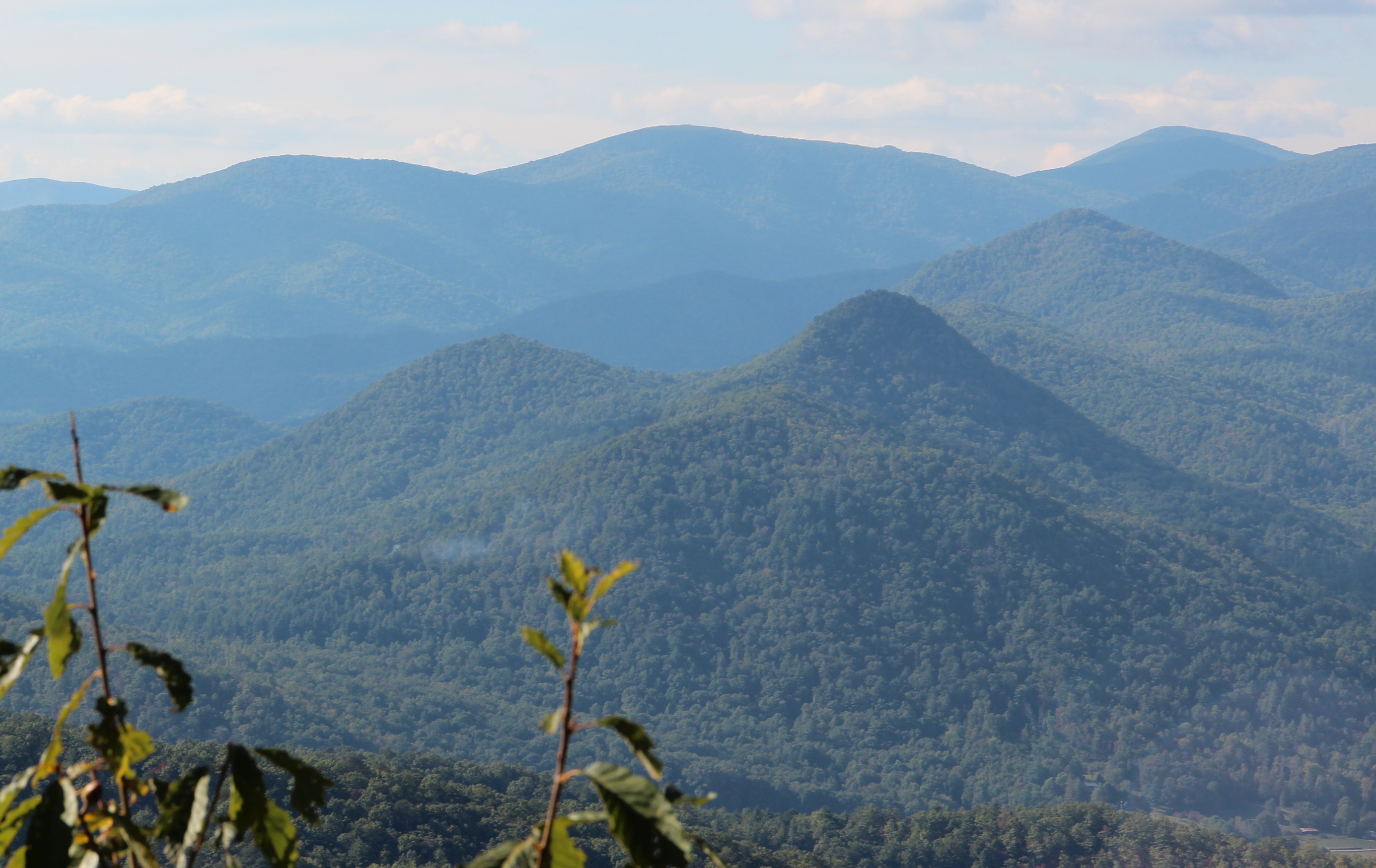 Clockwise from the left: Dicks Knob, Little Bald Knob, Standing Indian Mountain, Wolf Knob, Cedar Knob, Double Knob. Viewed from Black Rock Mountain State Park.